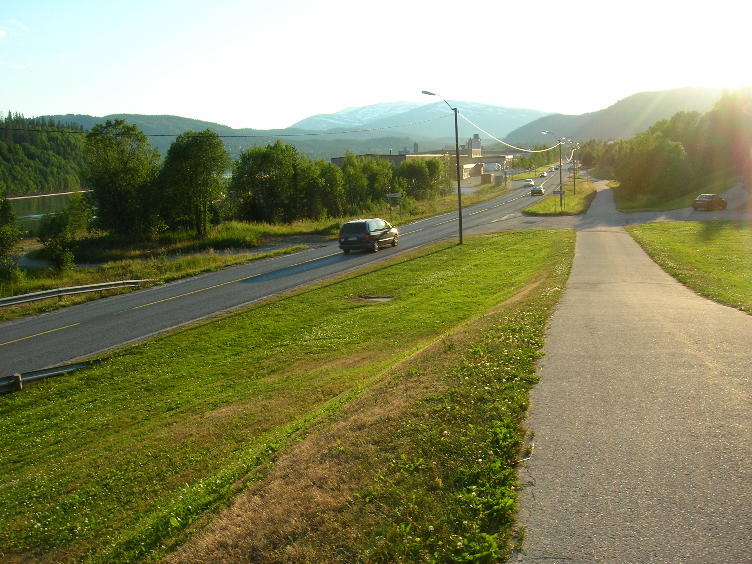 The coastal highway passing Ytteren in Rana, Nordland, Norway. Photo July 5, 2007 with a Nikon Coolpix 5600 5,1 Megapixel camera.